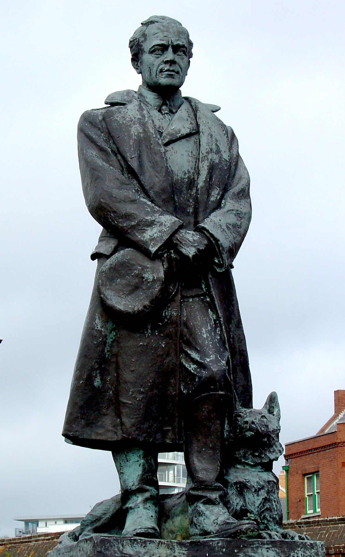 Statue of Robert Falcon Scott, facing the docks at Portsmouth